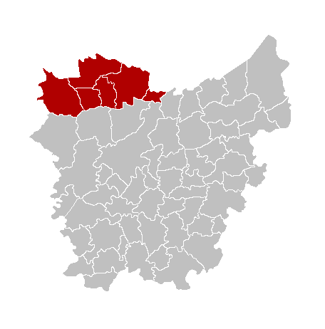 Map of the province East-Flanders, showing Eeklo arrondissement in red.